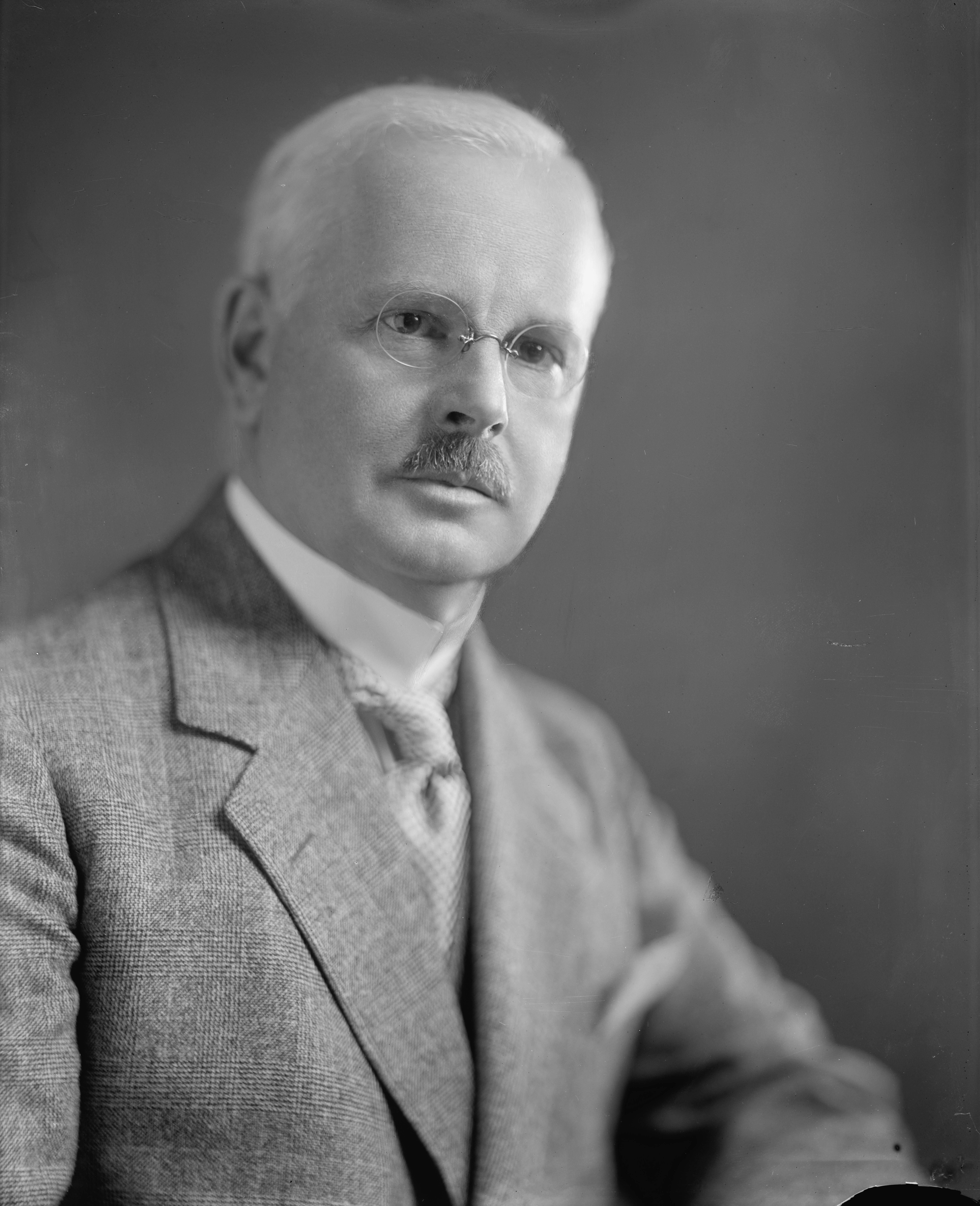 Title: SWEET, THADDEUS C., HONORABLE Abstract/medium: 1 negative : glass ; 8 x 10 in. or smaller